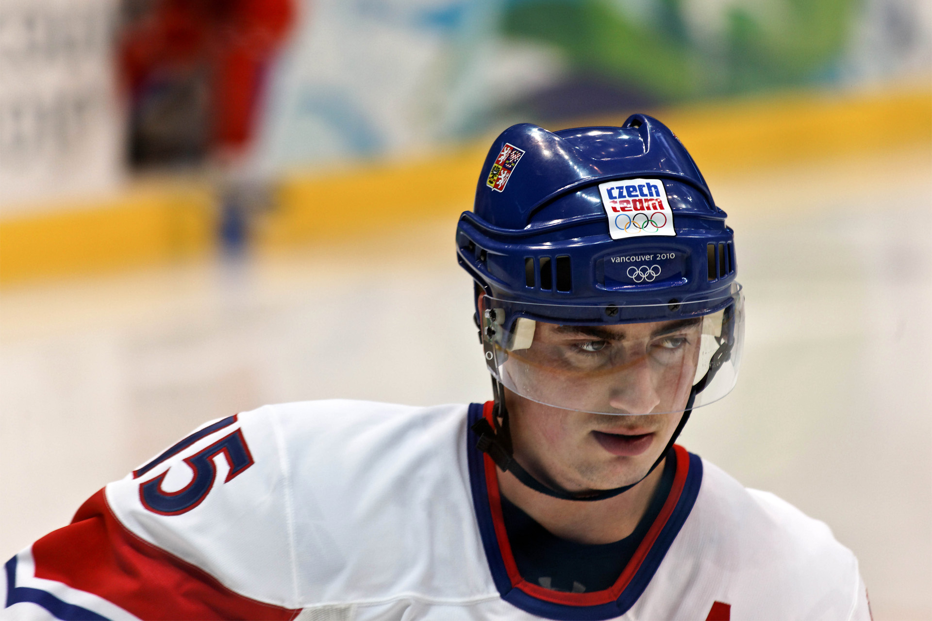 Czech Republic defenceman Tomáš Kaberle in action against Russia at the 2010 Winter Olympics.